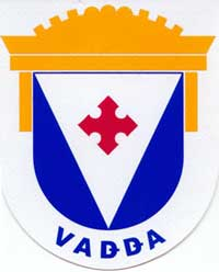 Votic Coat of Arms. Designed by Alexander Gurinov.